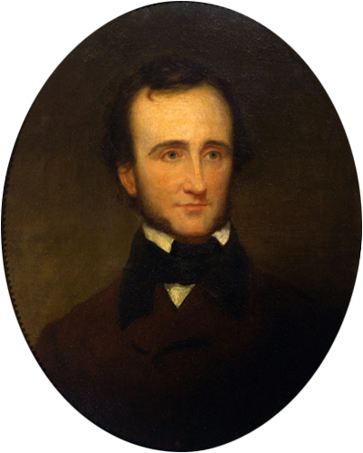 This portrait, a gift to the New-York Historical Society from Poe's literary executor, was painted from life in 1845, the year Poe wrote "The Raven." In 1844 his wanderings from job to job had taken him to New York, where he became editor of the "Broadway Journal," and where Osgood painted his portrait. Poe knew Osgood's wife, Frances Sargent Osgood, with whom he exchanged romantic poems.